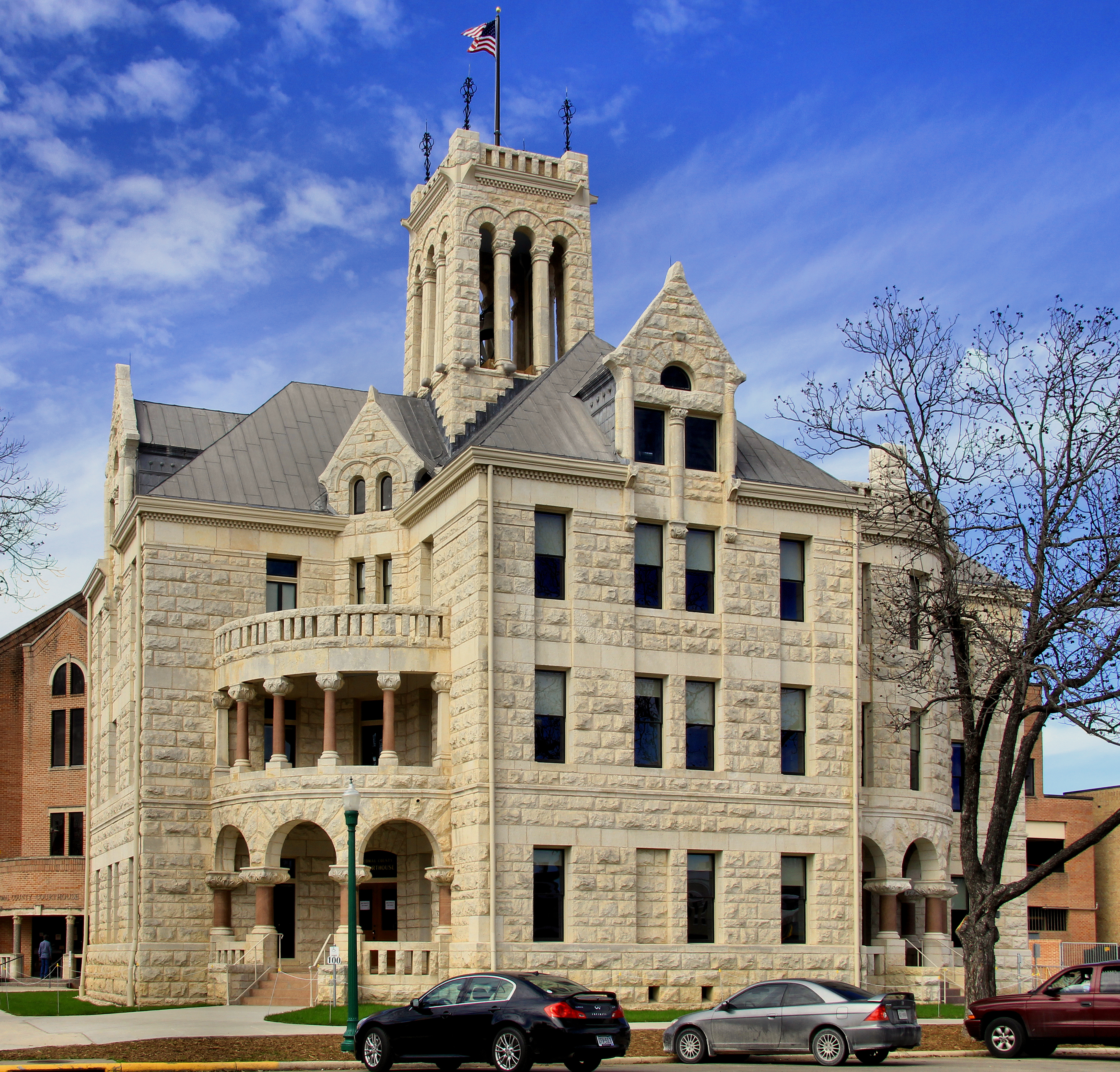 The Comal County Courthouse in New Braunfels, Texas, United States after renovation. The courthouse was listed on the National Register of Historic Places on December 12, 1976.